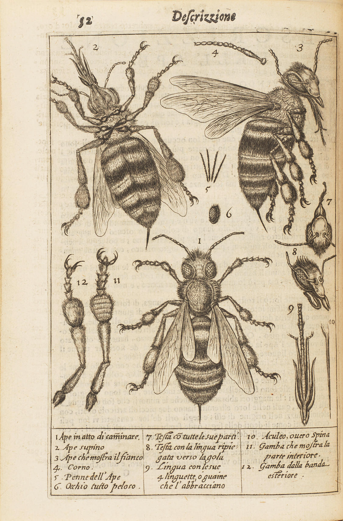 The oldest known drawing that was made with a microscope: bees.